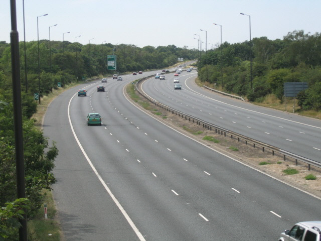 A2 at Leyton Cross. Leyton Cross is no longer a crossroads since the A2 (Dartford bypass) cut off one of its arms. View from the bridge on the road that replaced it, looking towards London.